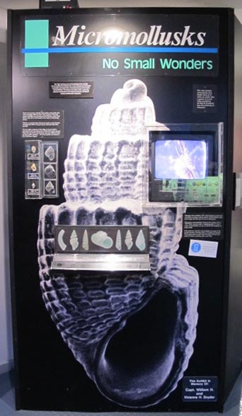 The shell museum exhibit about micromollusks.